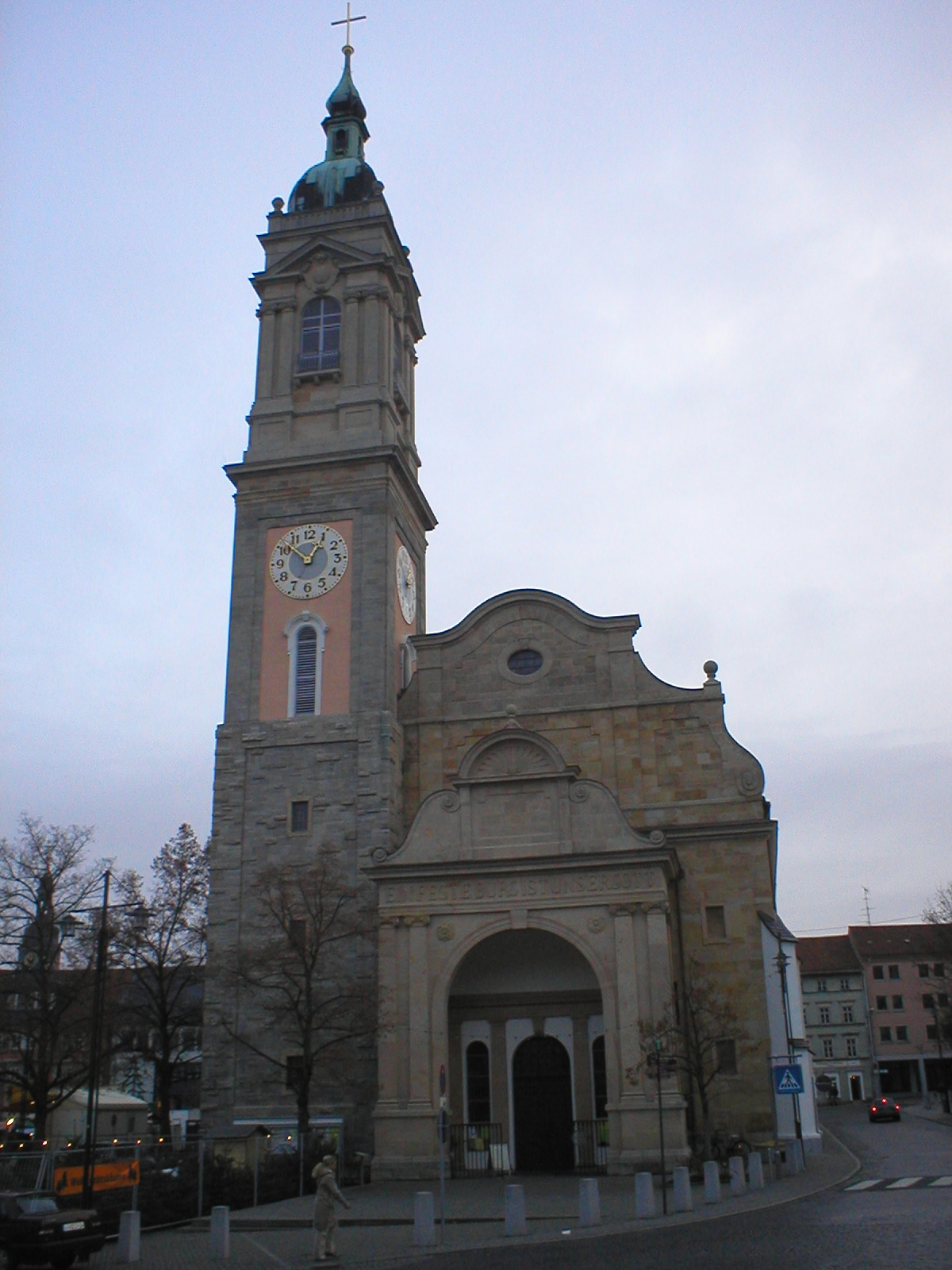 the church where Bach was baptised